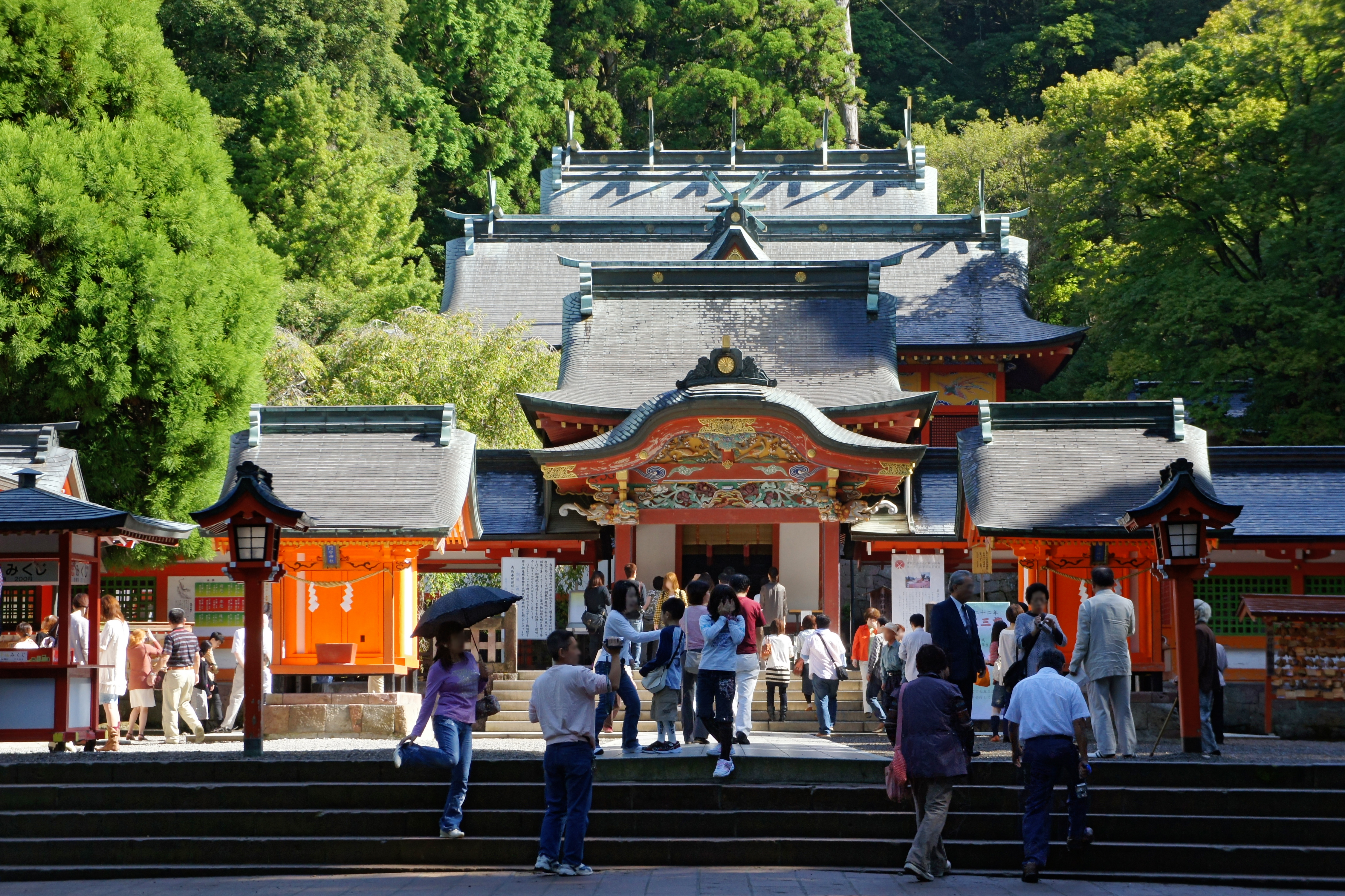 Kirishima-jingu in Kirishima, Kagoshima prefecture, Japan.